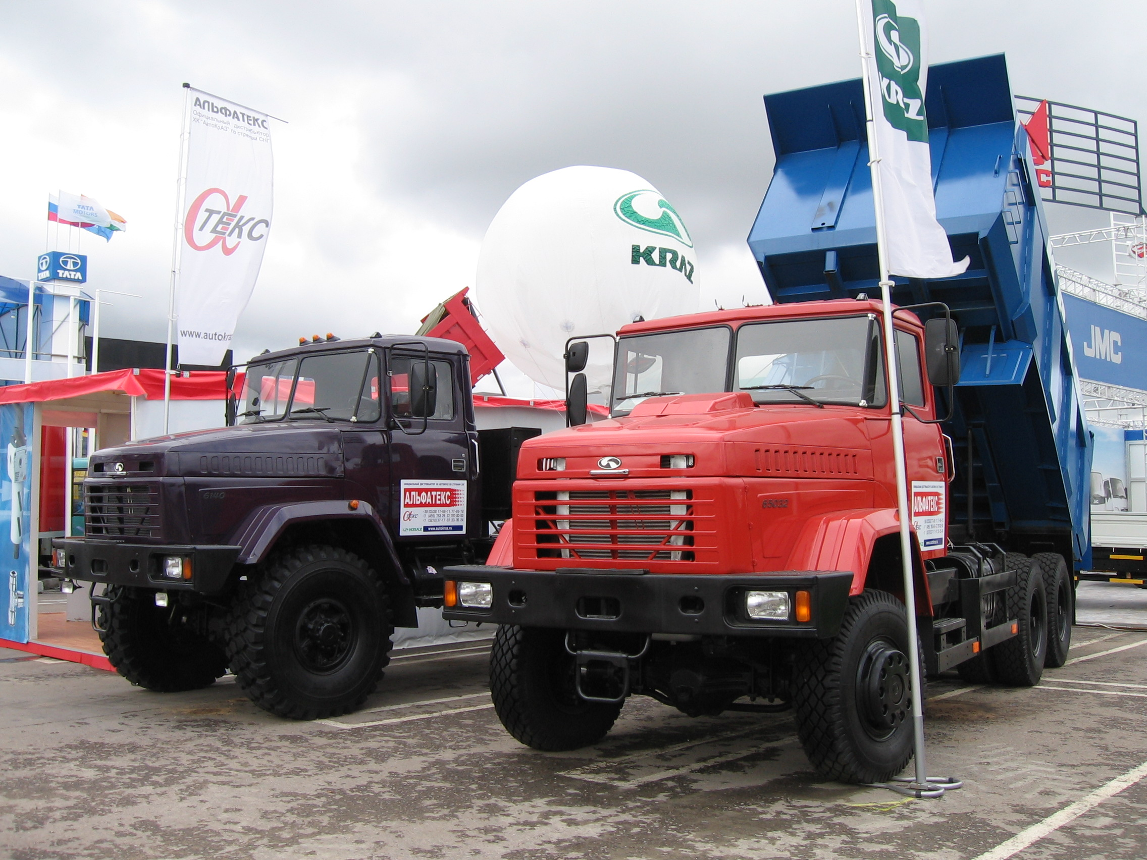 KRAZ truck russia moscow MIMS 2006. Vehicles are KrAZ-65032 dump truck (red truck) and KrAZ-6140TE semi-trailer truck.